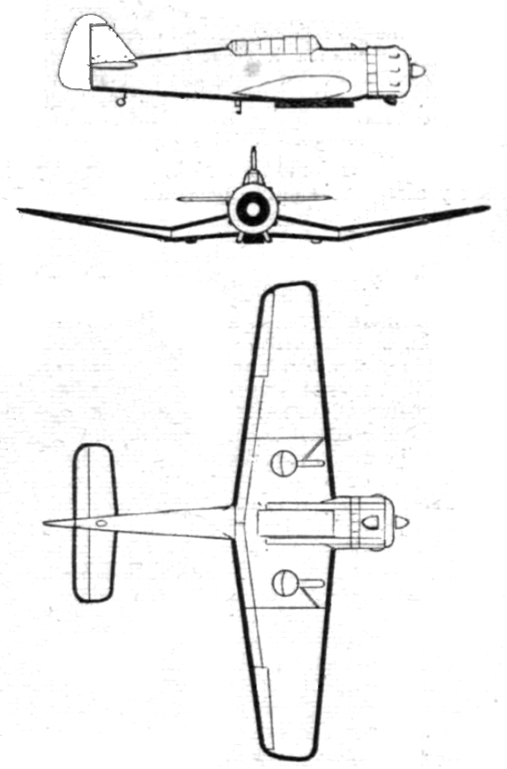 Three side view of the Miles Martinet TT Mk.I target tug.